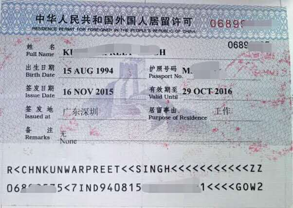 Residence Permit for Foreigner in People's Republic of China, which issued in Shenzhen. 中文（中国大陆）: 由深圳市签发的中华人民共和国外国人居留许可